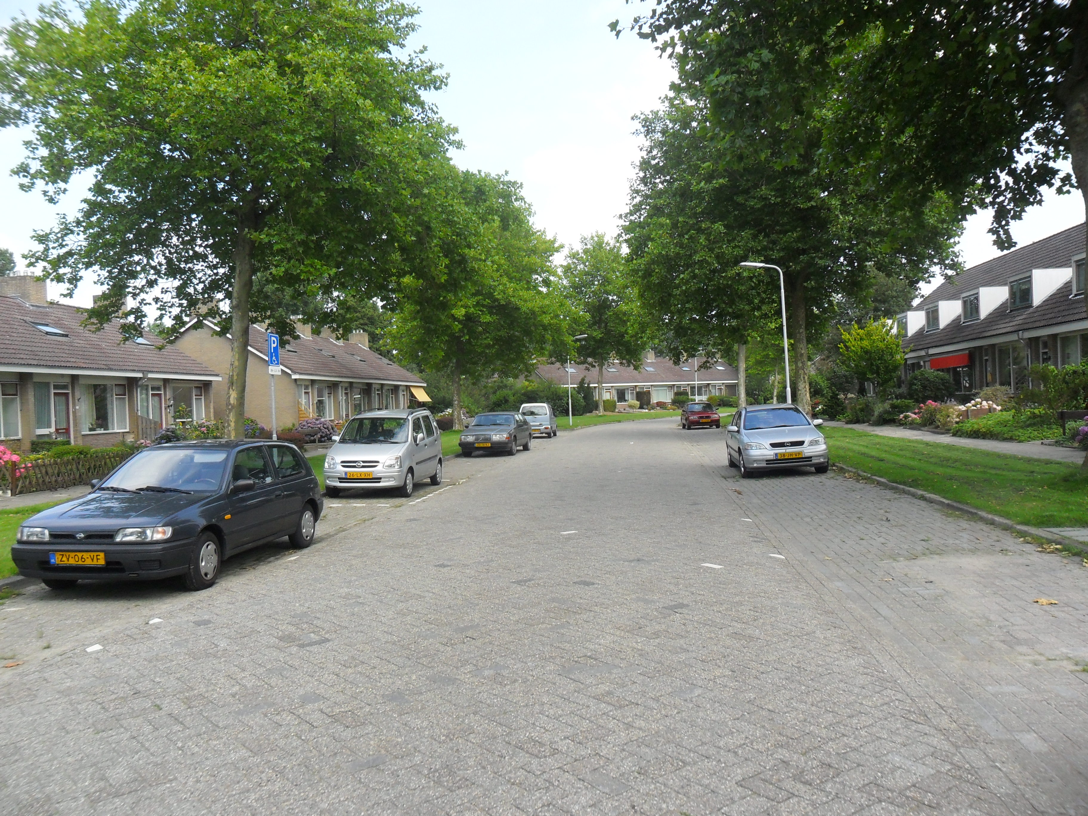 Molenkrite, Sneek